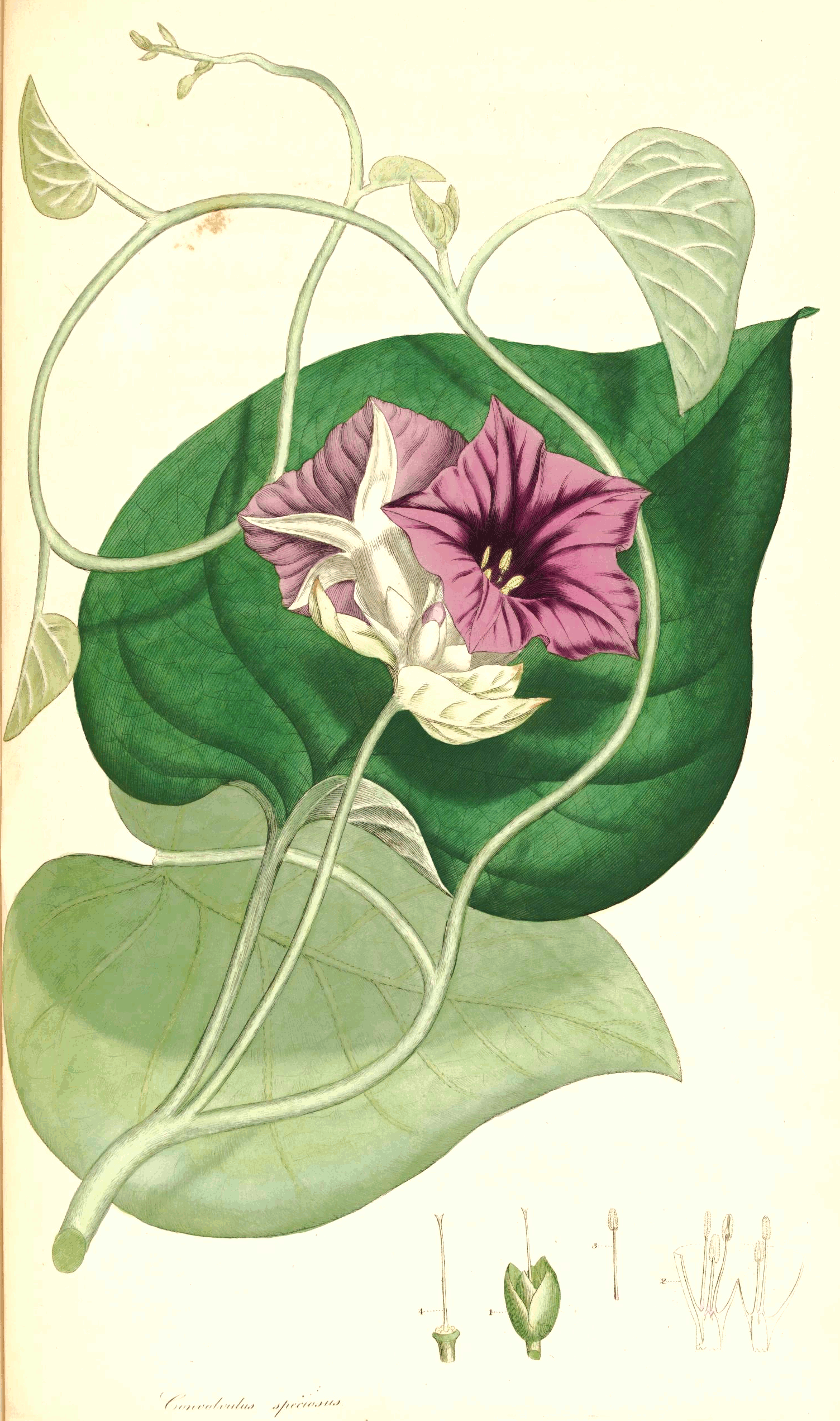 Caption: Convolvulus speciosus L. f., now Argyreia nervosa (Burm. f.) Bojer [1]. Plate from book